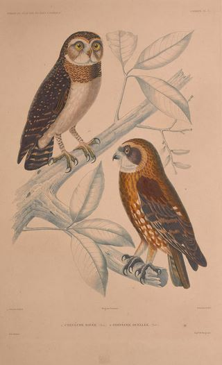 Ninox jacquinoti = Chevêche Rayée (Figure 1) Ninox boobook ocellata = Chevêche Ocelée (Figure 2)